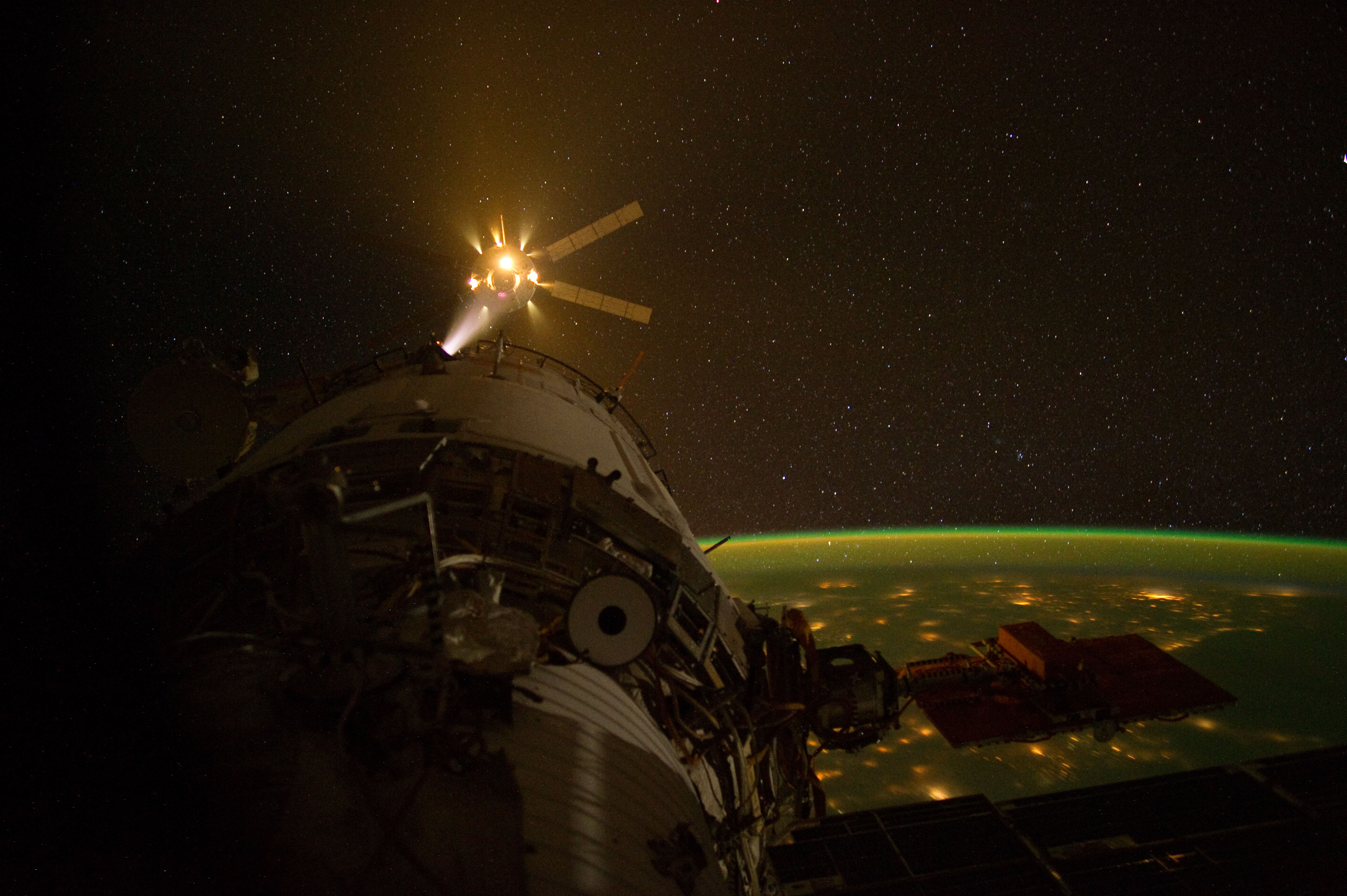 European Space Agency's "Edoardo Amaldi" Automated Transfer Vehicle-3 (ATV-3) approaches the International Space Station. The unmanned cargo spacecraft docked to the space station at 6:31 p.m. (EDT) on March 28, 2012, delivering 220 pounds of oxygen, 628 pounds of water, 4.5 tons of propellant, and nearly 2.5 tons of dry cargo, including experiment hardware, spare parts, food and clothing.